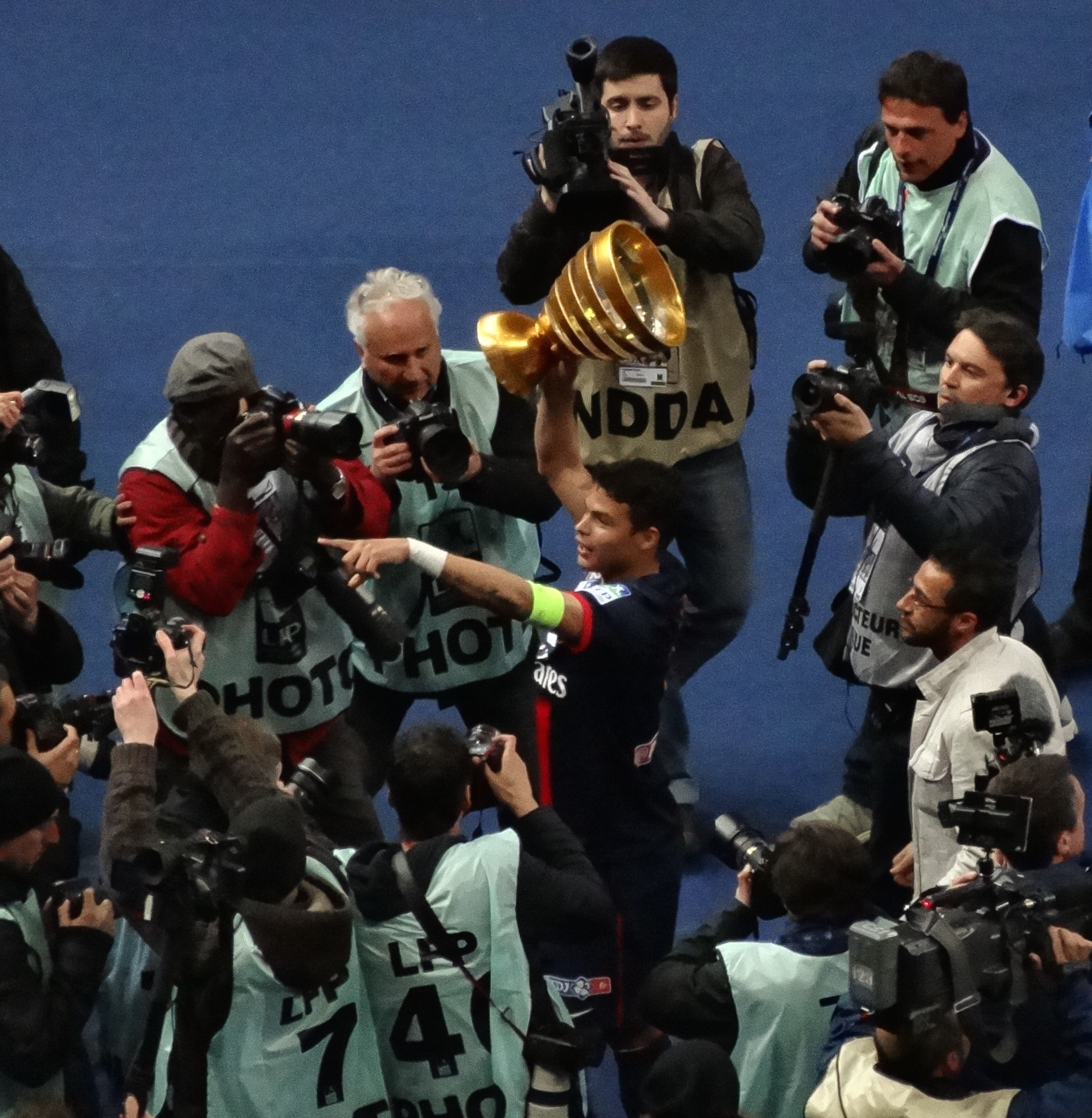 Thiago Silva, French League Cup 2014